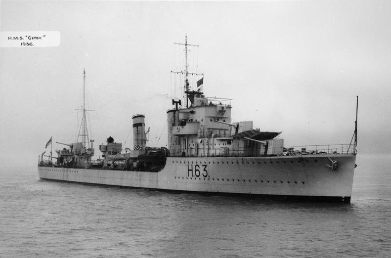 Photograph of British destroyer HMS Gipsy.